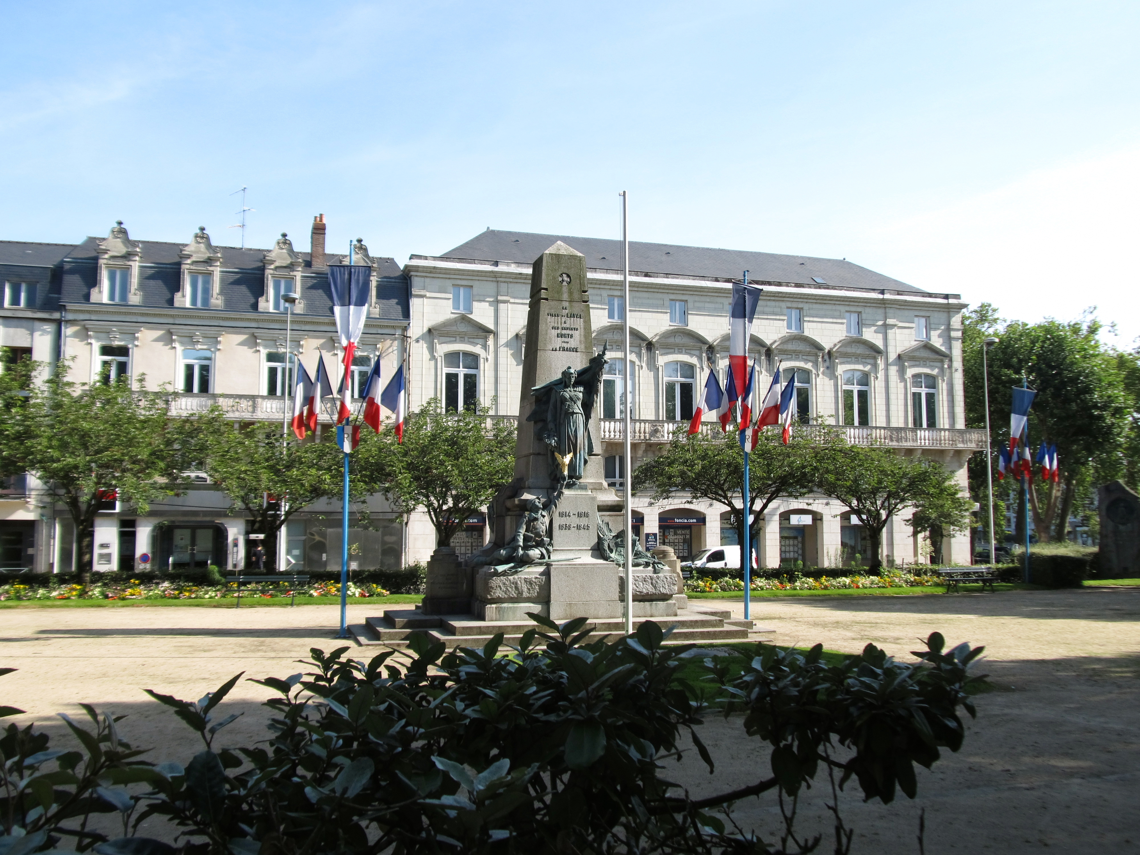 Place du 11-Novembre, Laval, Mayenne, France.